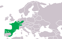 Distribution of Alytes obstetricans, based on Nöllert/Nöllert: "Die Amphibien Europas"